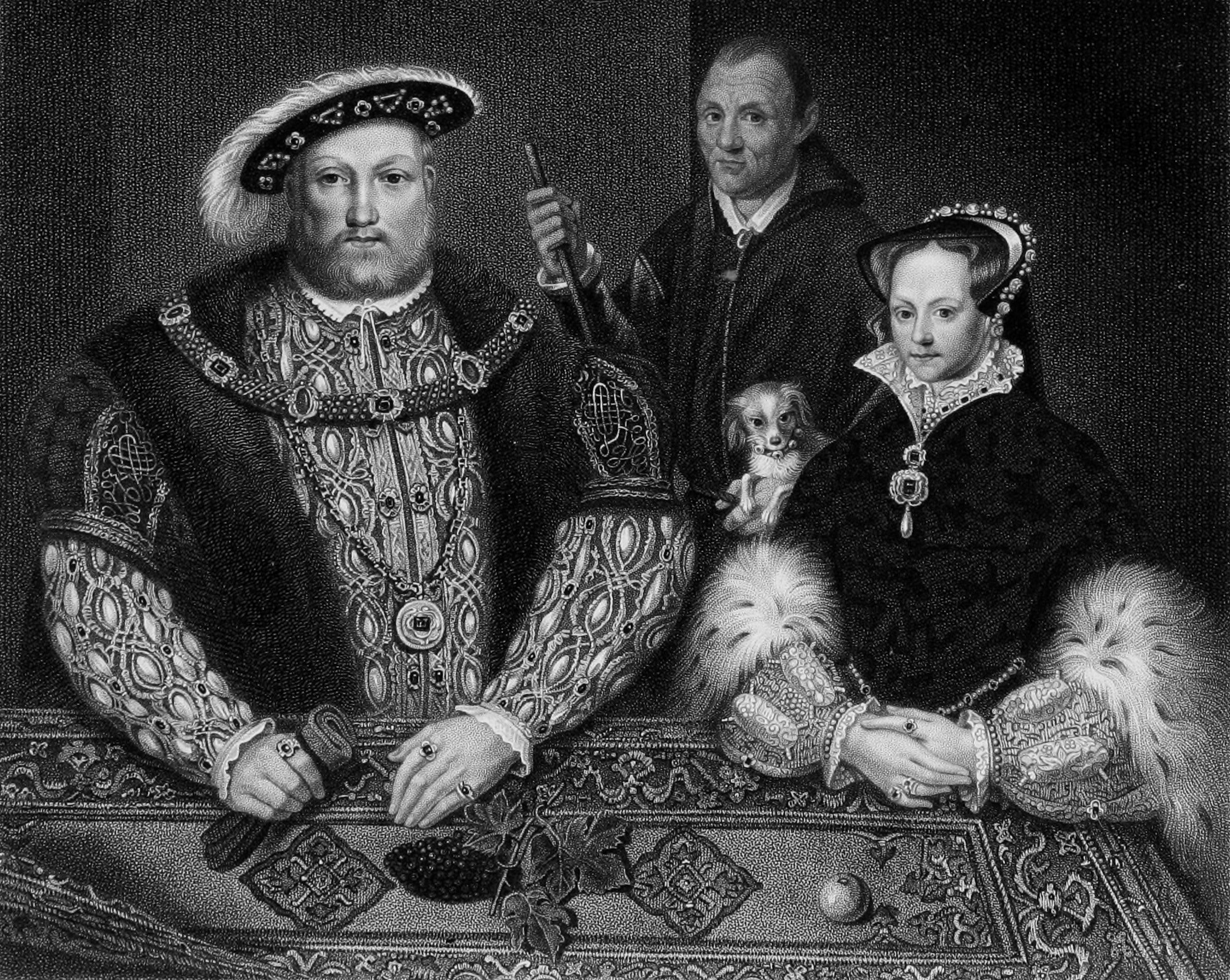 Henry VIII, Princess Mary and Will Sommers, the King fool Henry VIII and Mary I with William Sommers by an Unknown Artist. Collection of Earl Spencer, Althorp.